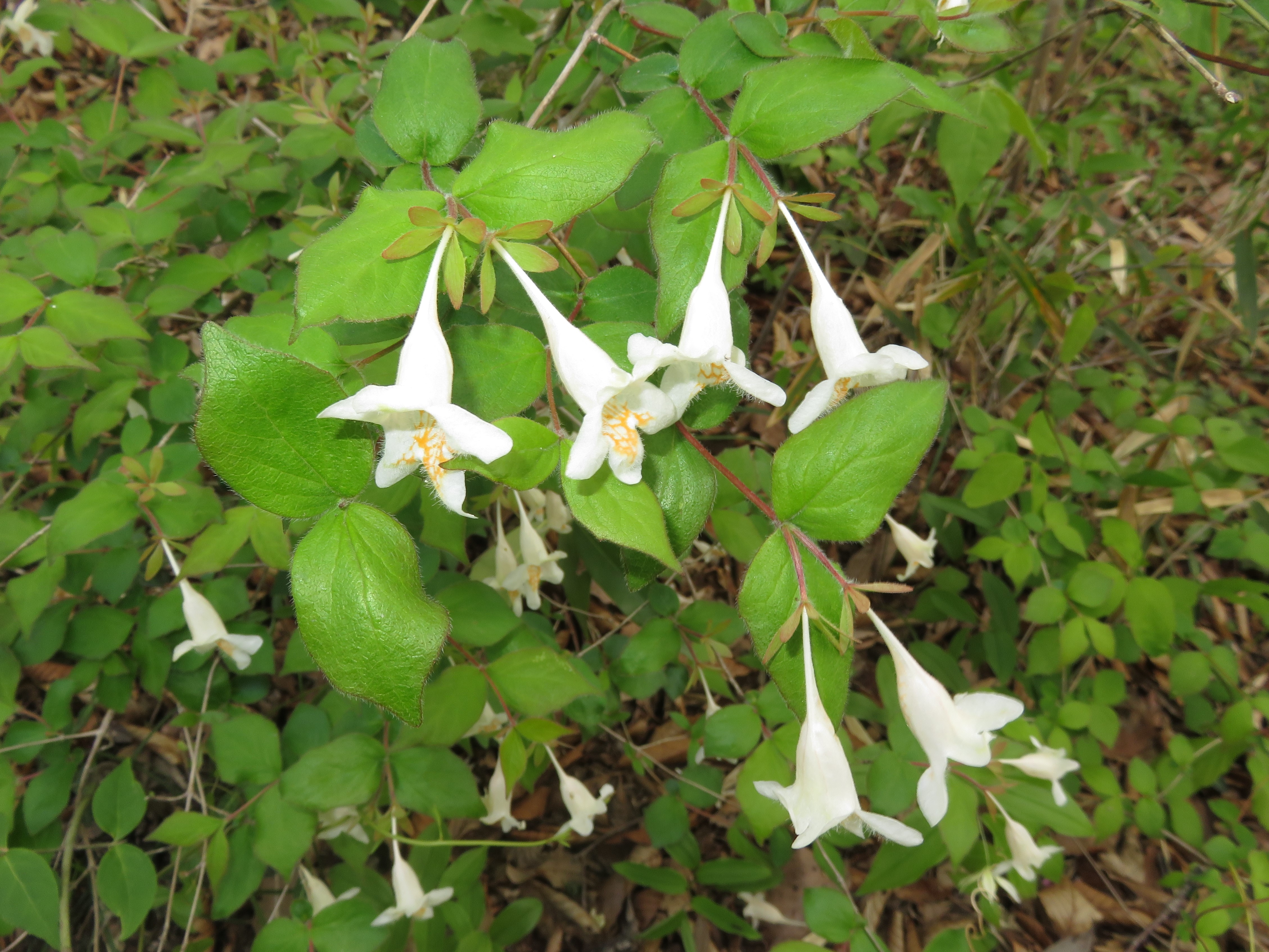 Abelia tetrasepala, Hama-dori area, Fukushima pref., Japan